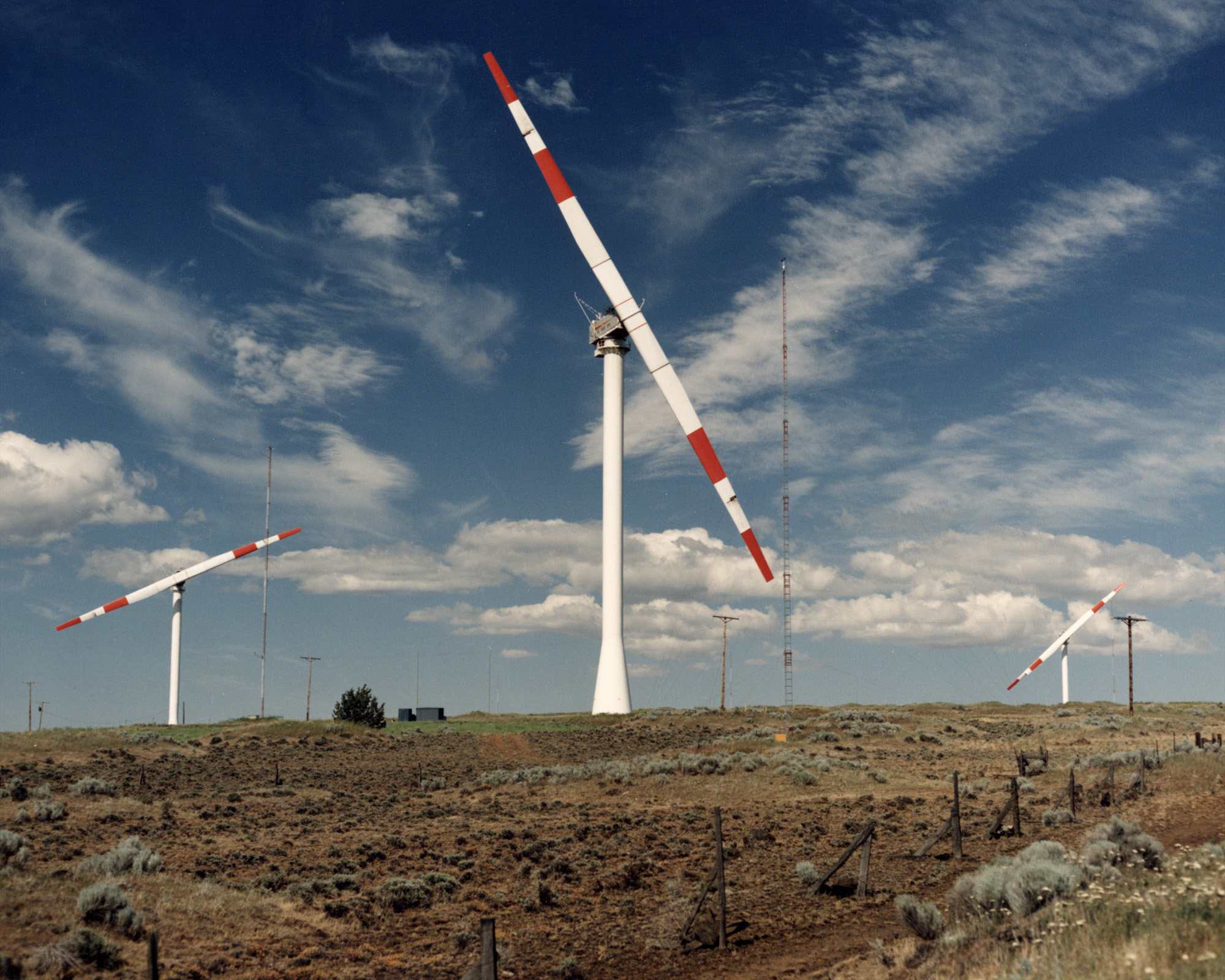 NASA/DOE 7.5 megawatt three wind turbine cluster in Goodnoe Hills, Washington, photo courtesy of NASA